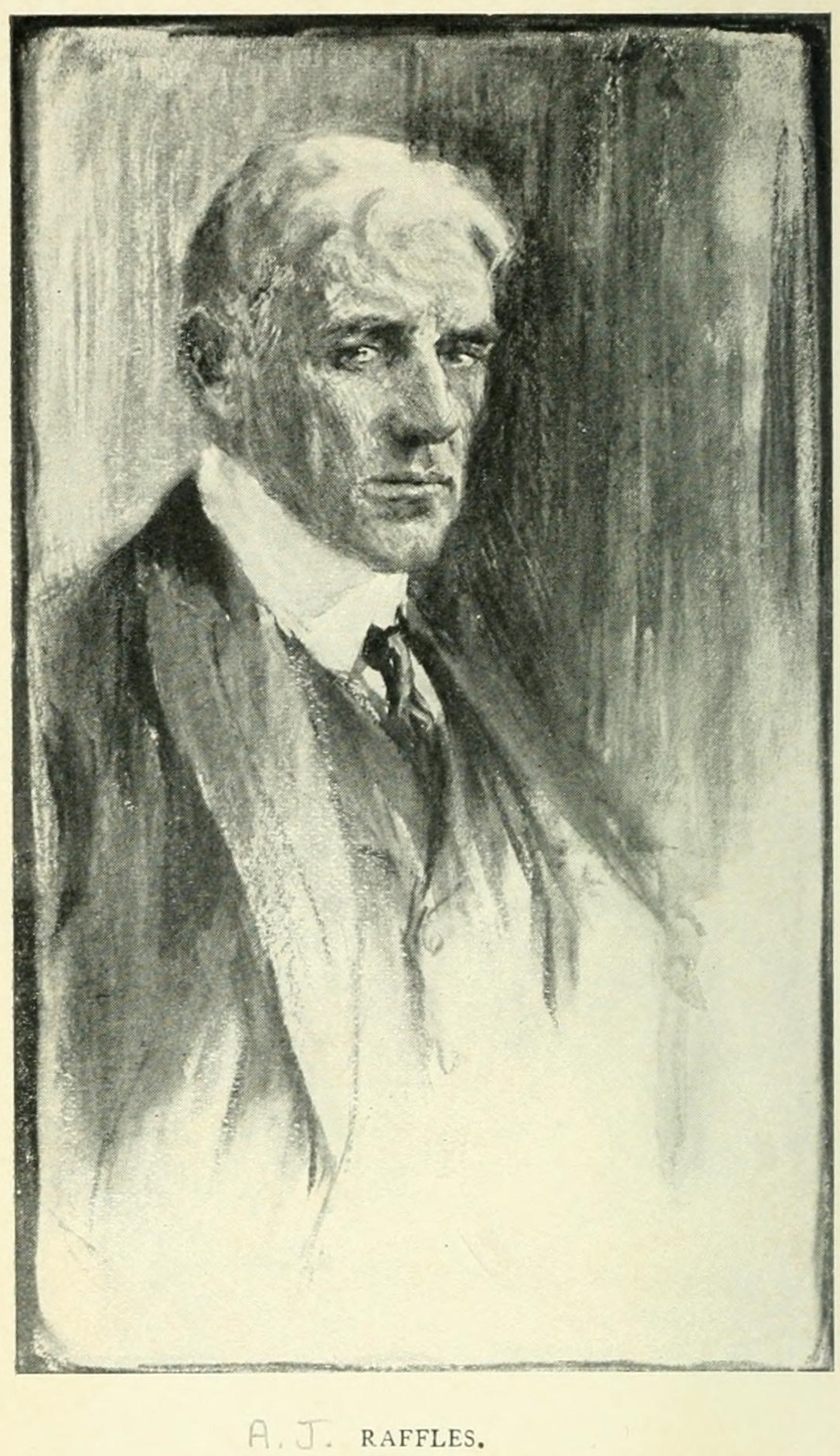 Portrait of A.J. Raffles; taken from the frontispiece of The Amateur Cracksman (1905) by E.W. Hornung